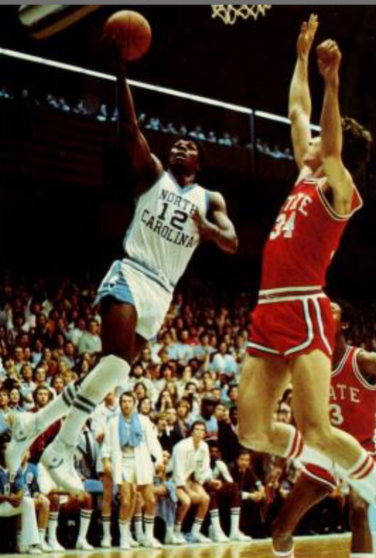 University of North Carolina Tar Heels basketball player Phil Ford from the 1977 “Yackety Yack” yearbook.